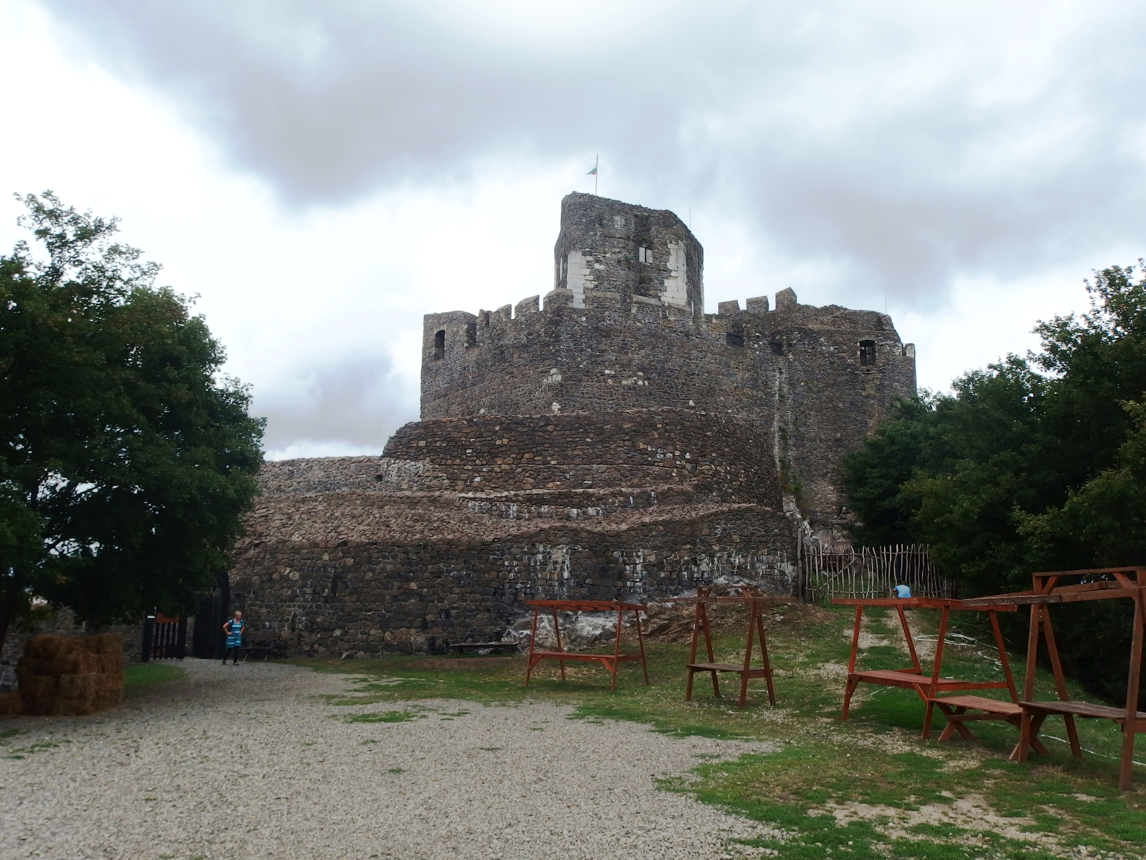 Hollókő, Hungary. Castle.